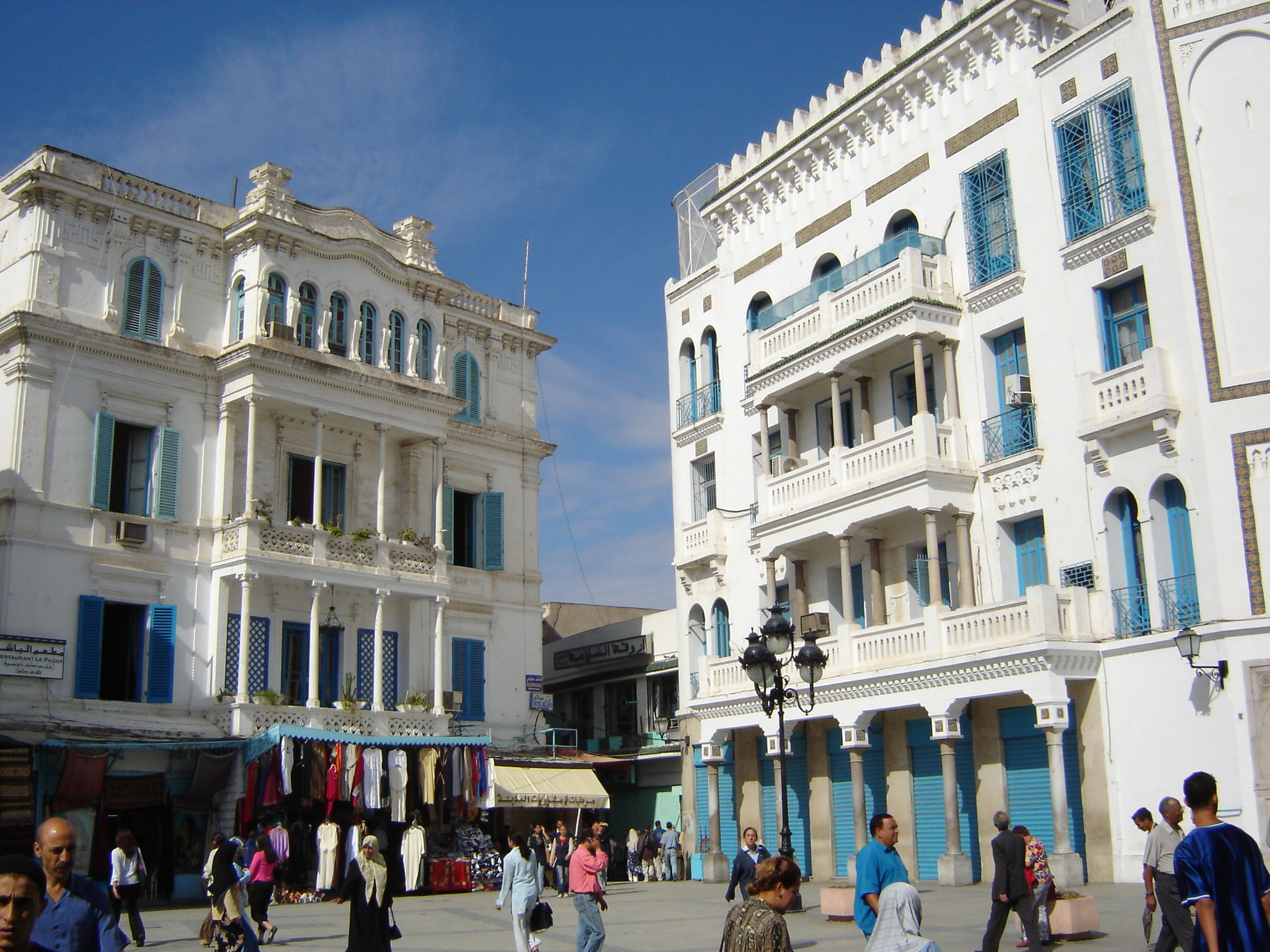 Place de la Victoire, Tunis, Tunisia Source: self-made, October 2004 Author: BishkekRocks 14:04, 24 January 2006 (UTC)